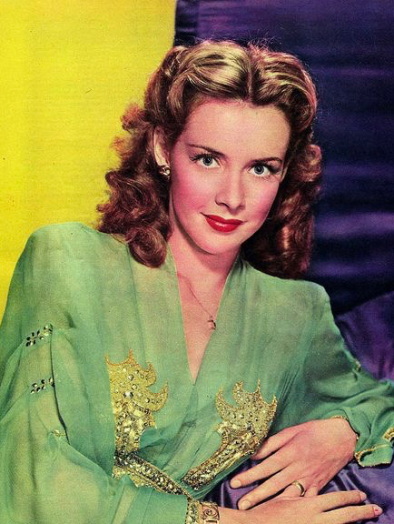 Susan Peters in Modern Screen, April 1944